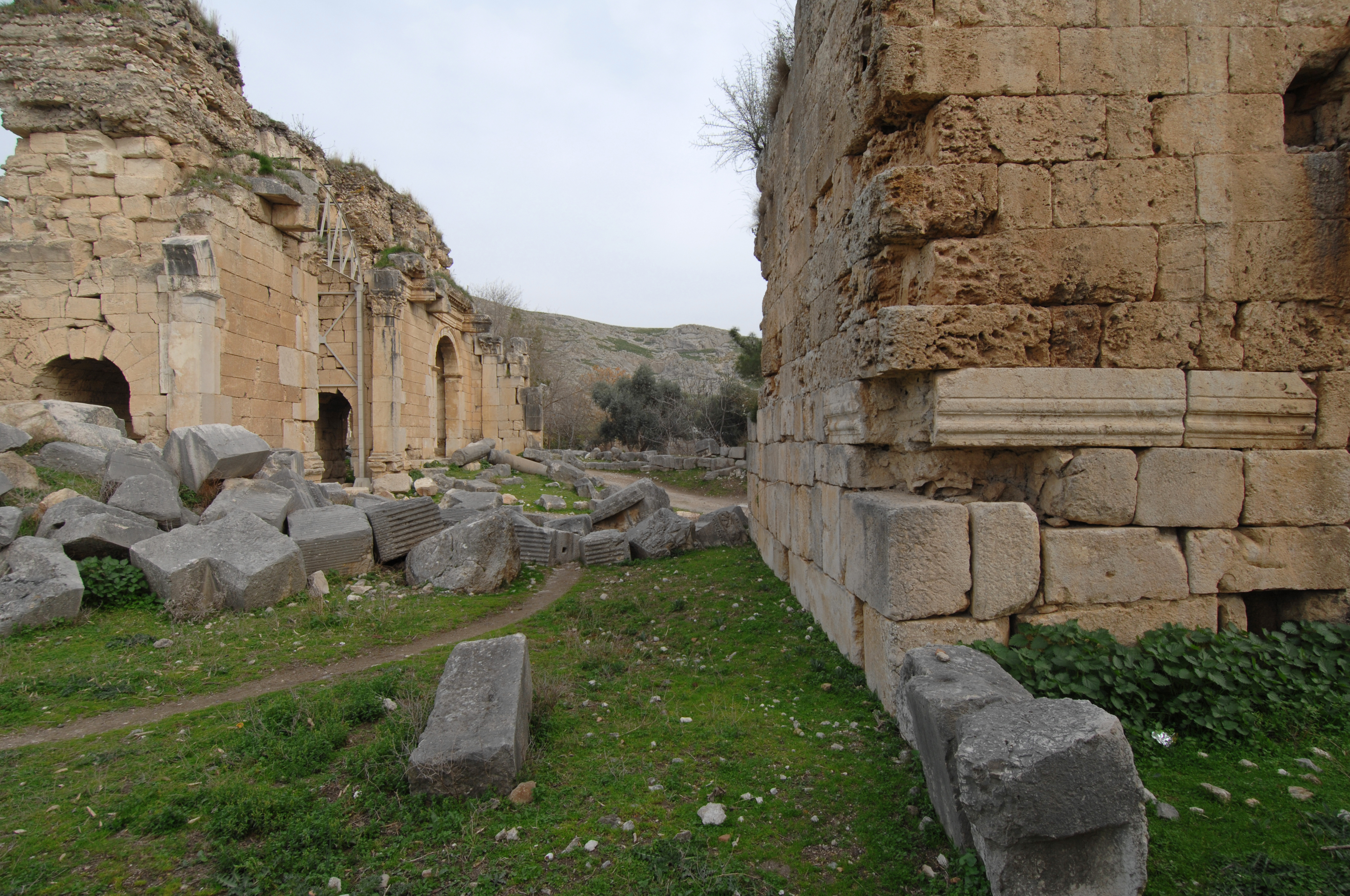 Left: The roman triumphal arch (3th century AD), on the south edge of the lower city of Anazarbus. This monument, with its three passages, is unique in Cilicia. It was situated close to the city walls (a glimpse of it is shown on the right half of the picture) and to the south city gate, of which nothing remains. During a 2008 visit not very much was visible of ancient Anazarbus, with the exception of the fine triumphal arch. It seems a lot more has been excavated since.